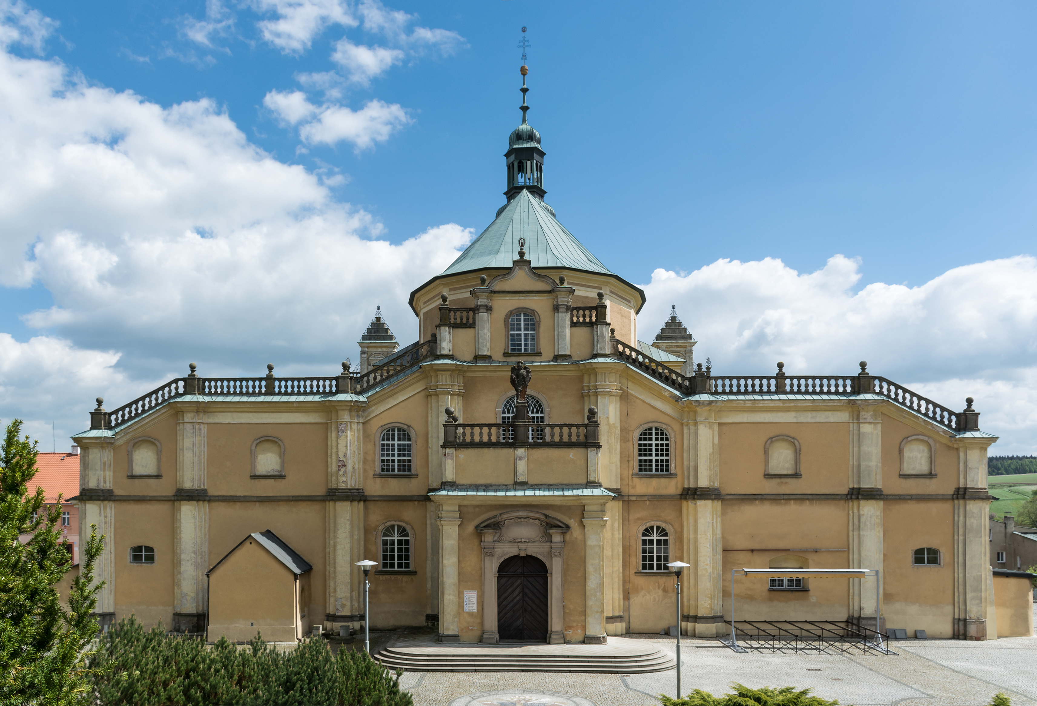 Basilica of the Visitation in Wambierzyce